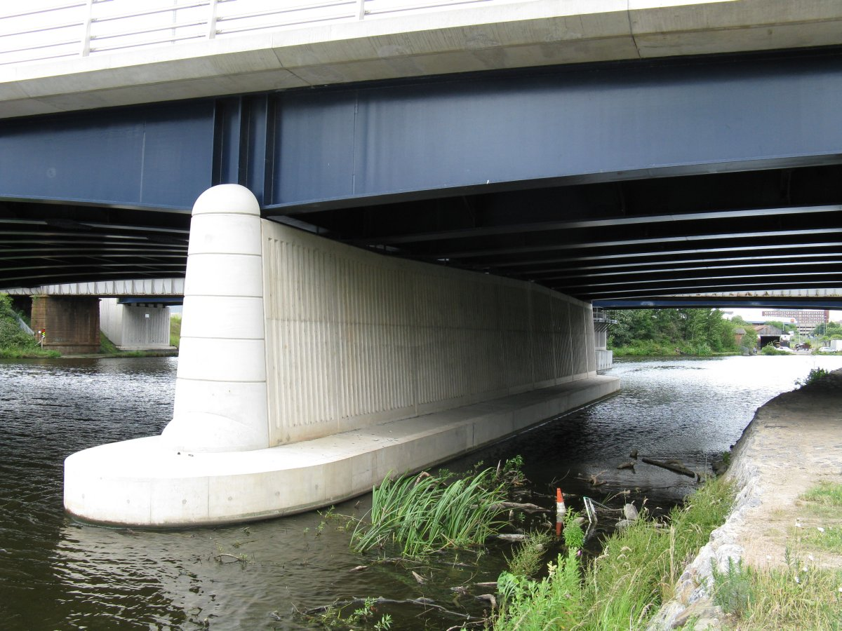 The eastern pier of Surtees Bridge across the river Tees in Stockton-on-Tees, England.